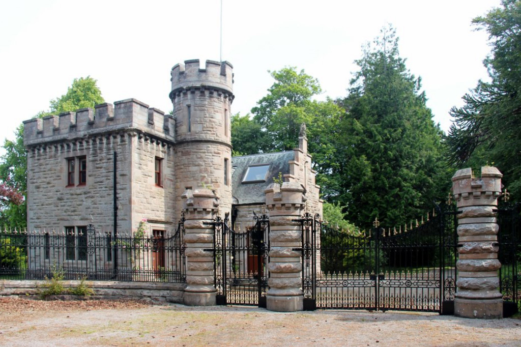 West Lodge, Skibo